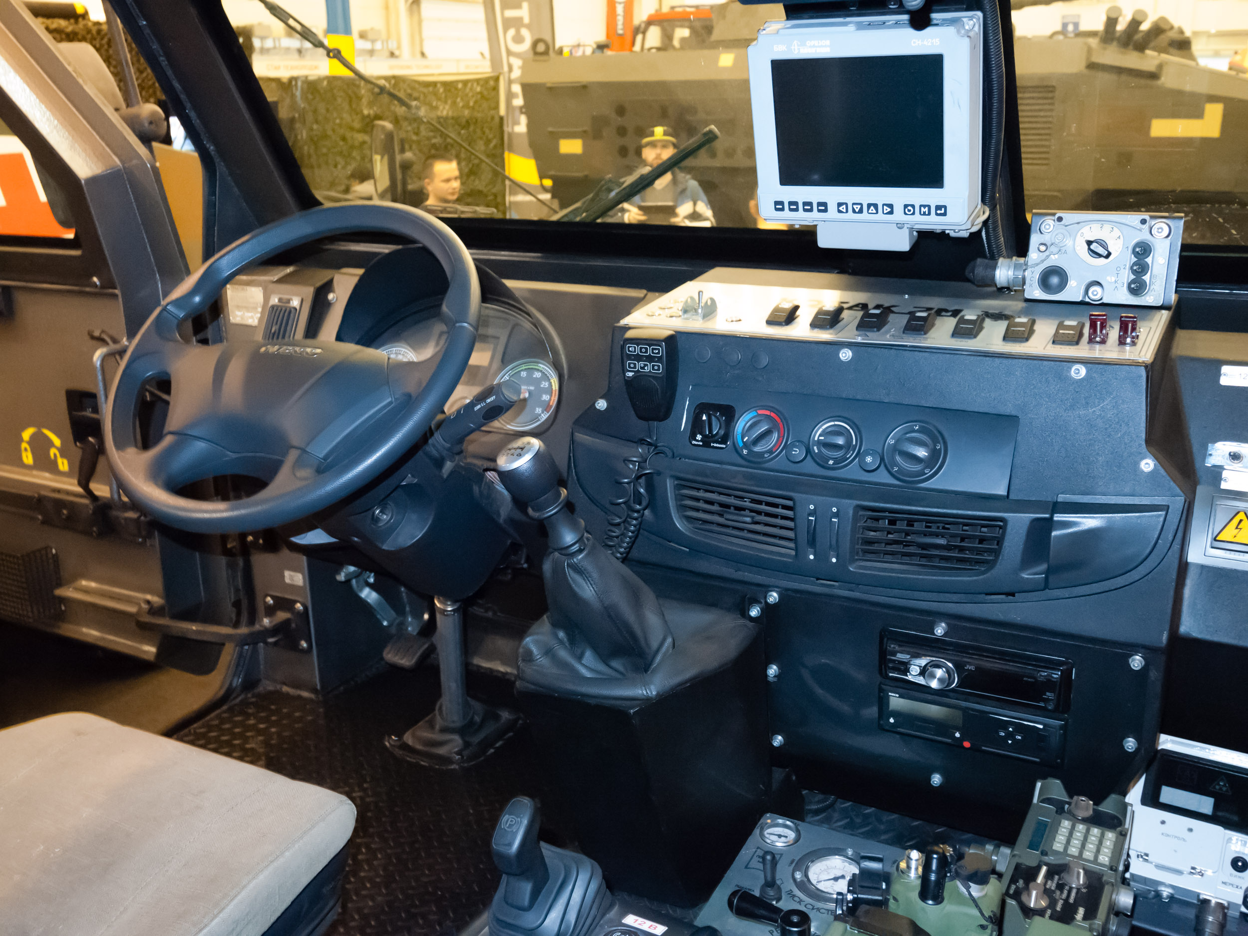 Kozak-2M.1 vehicle by Practika (Ukraine) at 'Zbroya ta Bezpeka' military fair, Kyiv, Ukraine, 2018